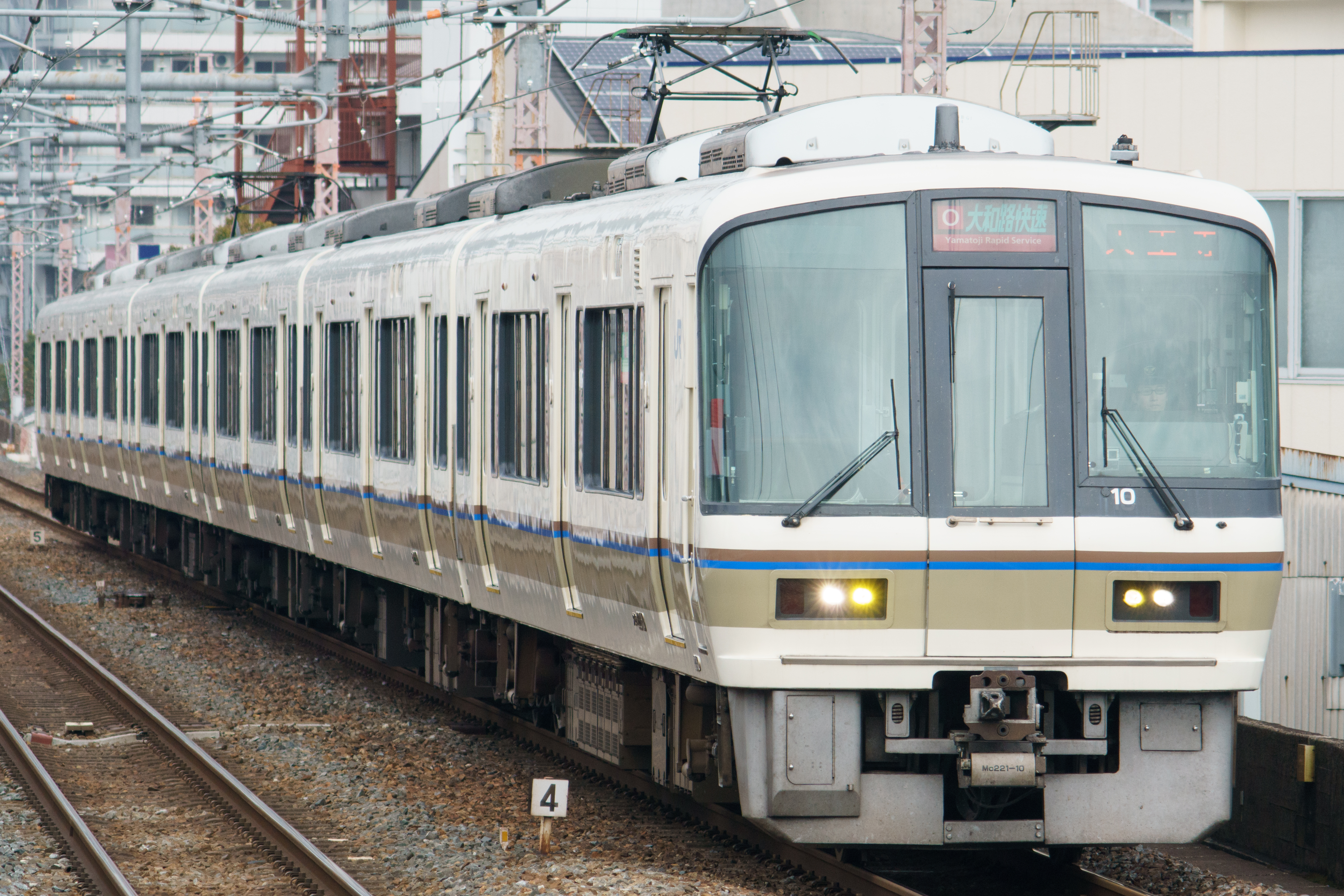 西日本旅客鉄道（JR西日本） 221系 NC603編成 撮影：桃谷駅 West Japan Railway Company (JR West) 221 series EMU sets NC603 Photo Taken at Momodani Station.